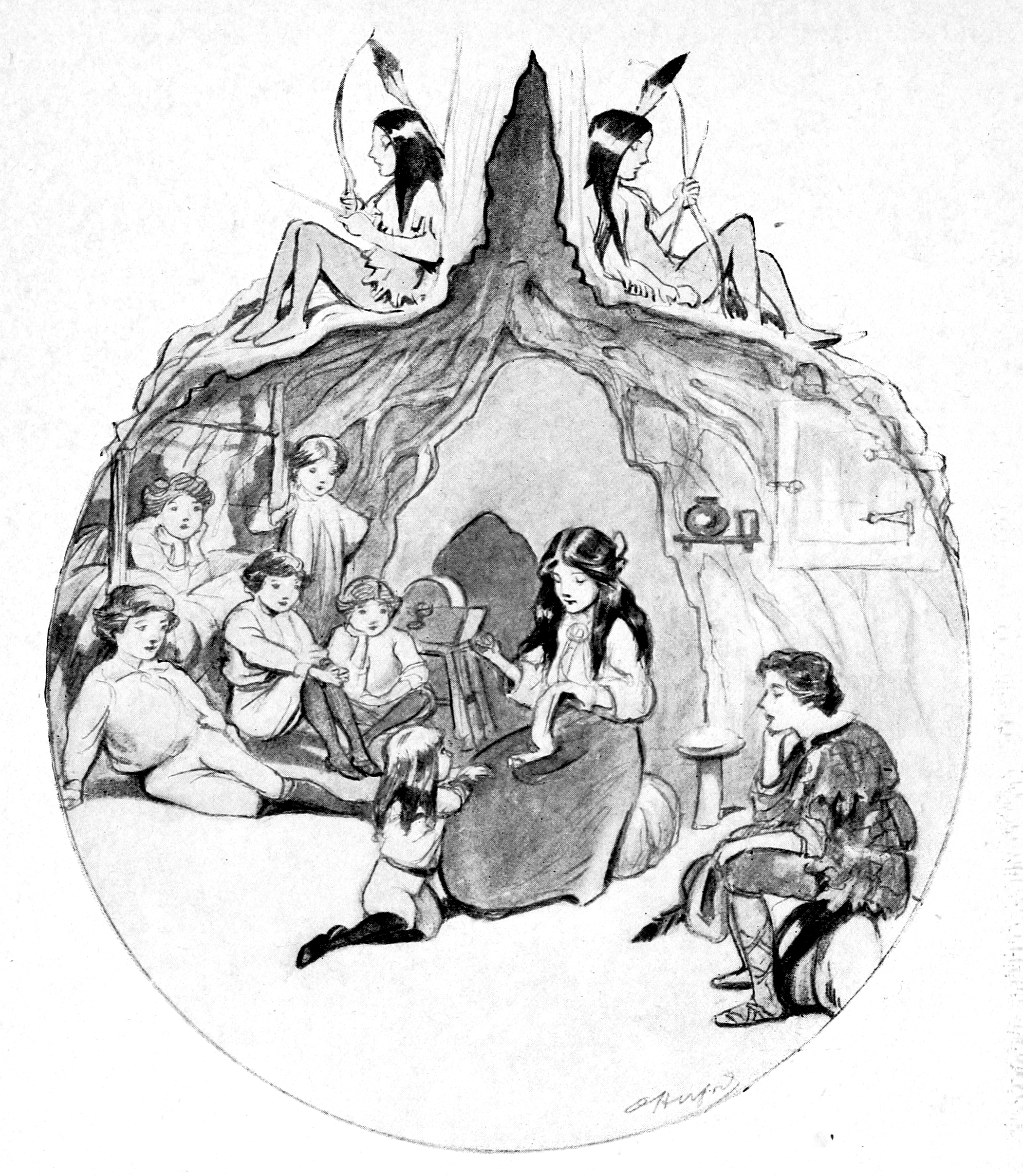 Wendy Darling sits mending clothes in the Underground Home